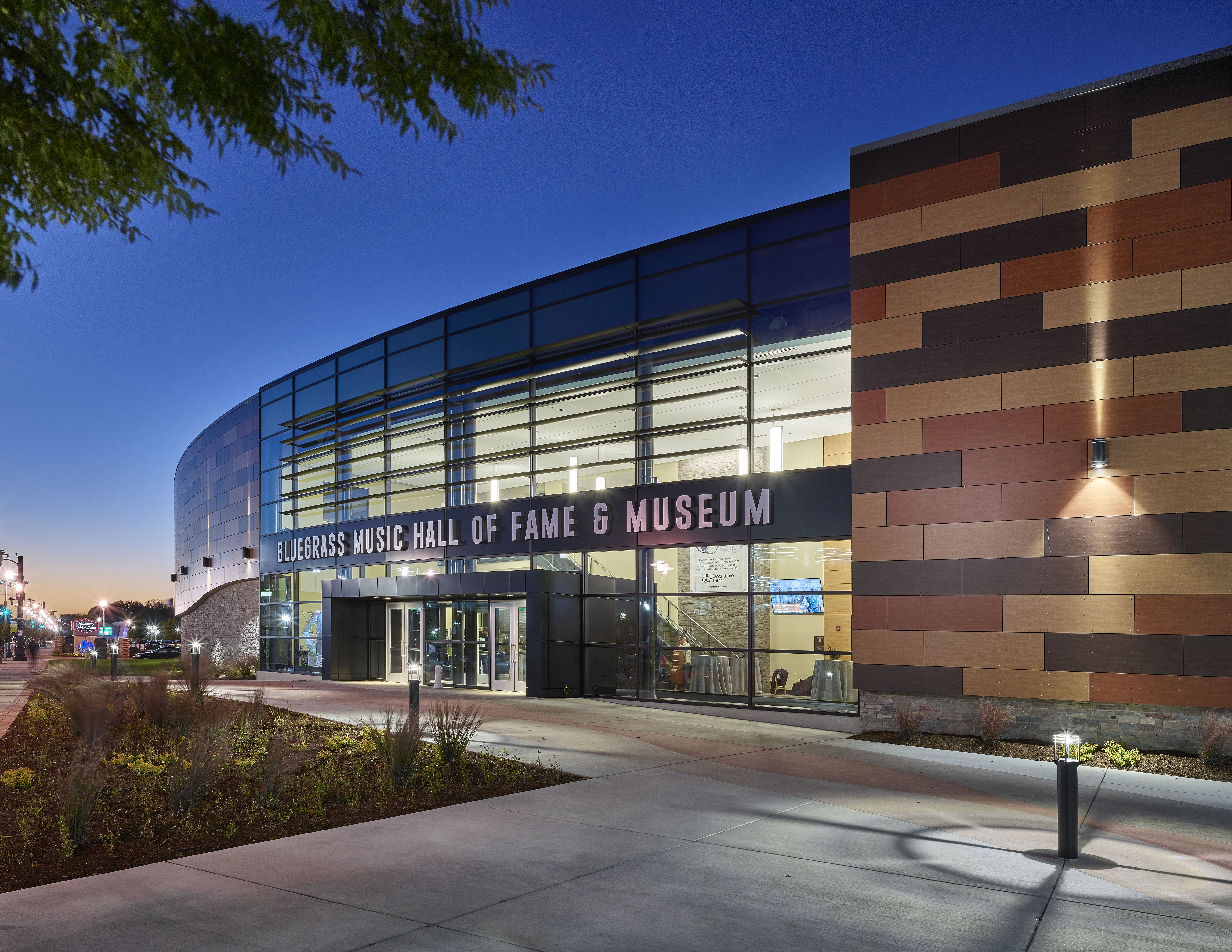 Exterior image of the Bluegrass Music Hall of Fame & Museum, located in Owensboro, KY.